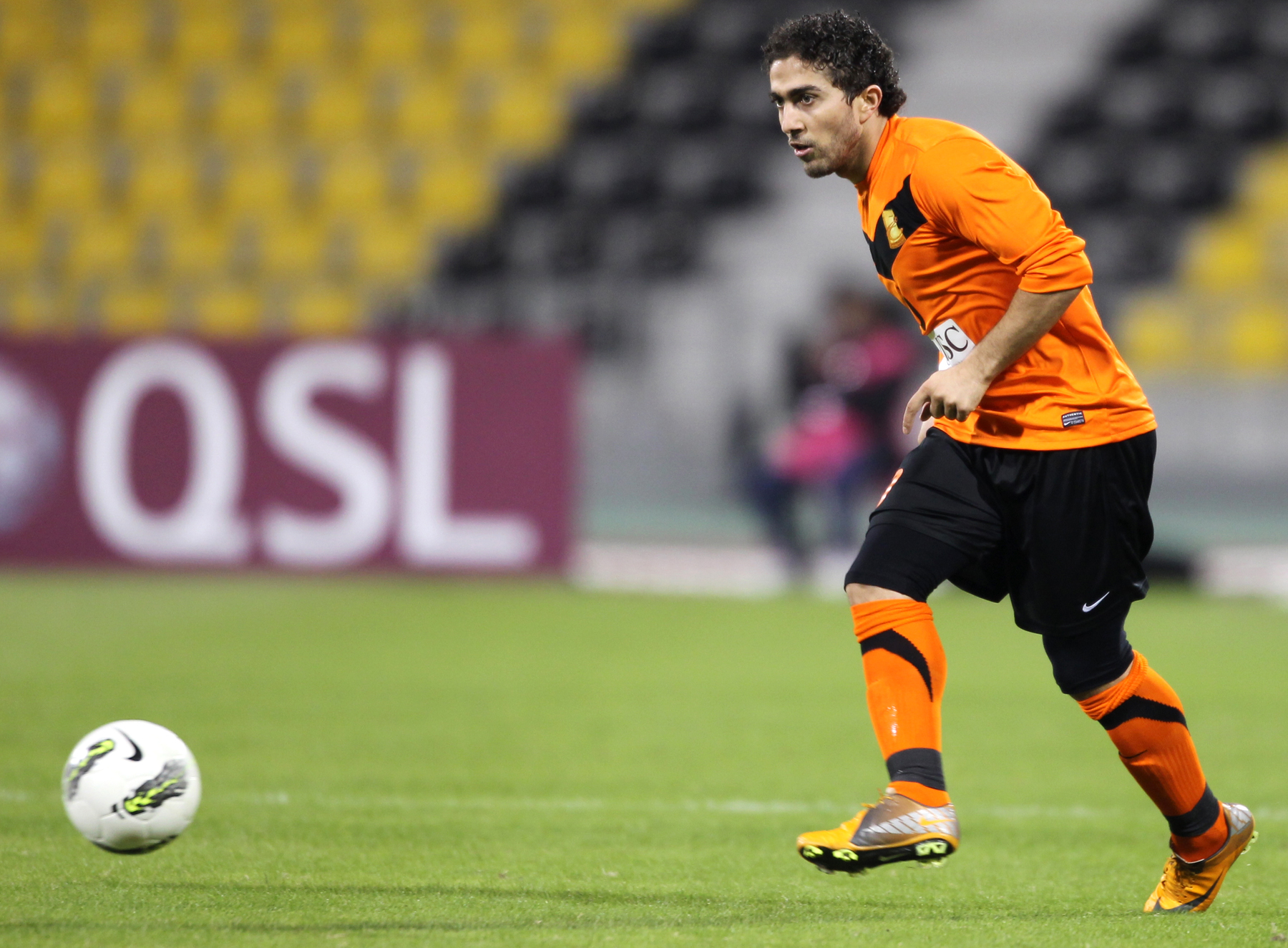 Umm Salal's Syrian professional Firas Al-Khatib prepares to kick a ball during their Qatar Stars League match. Pic by Mohammed Dabbous